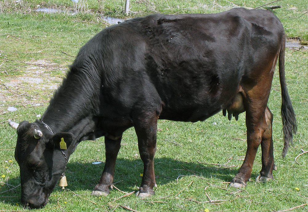 Brown Mountain Cattle (Young cow) from Rila Mountain, Beli Iskar, Bulgaria